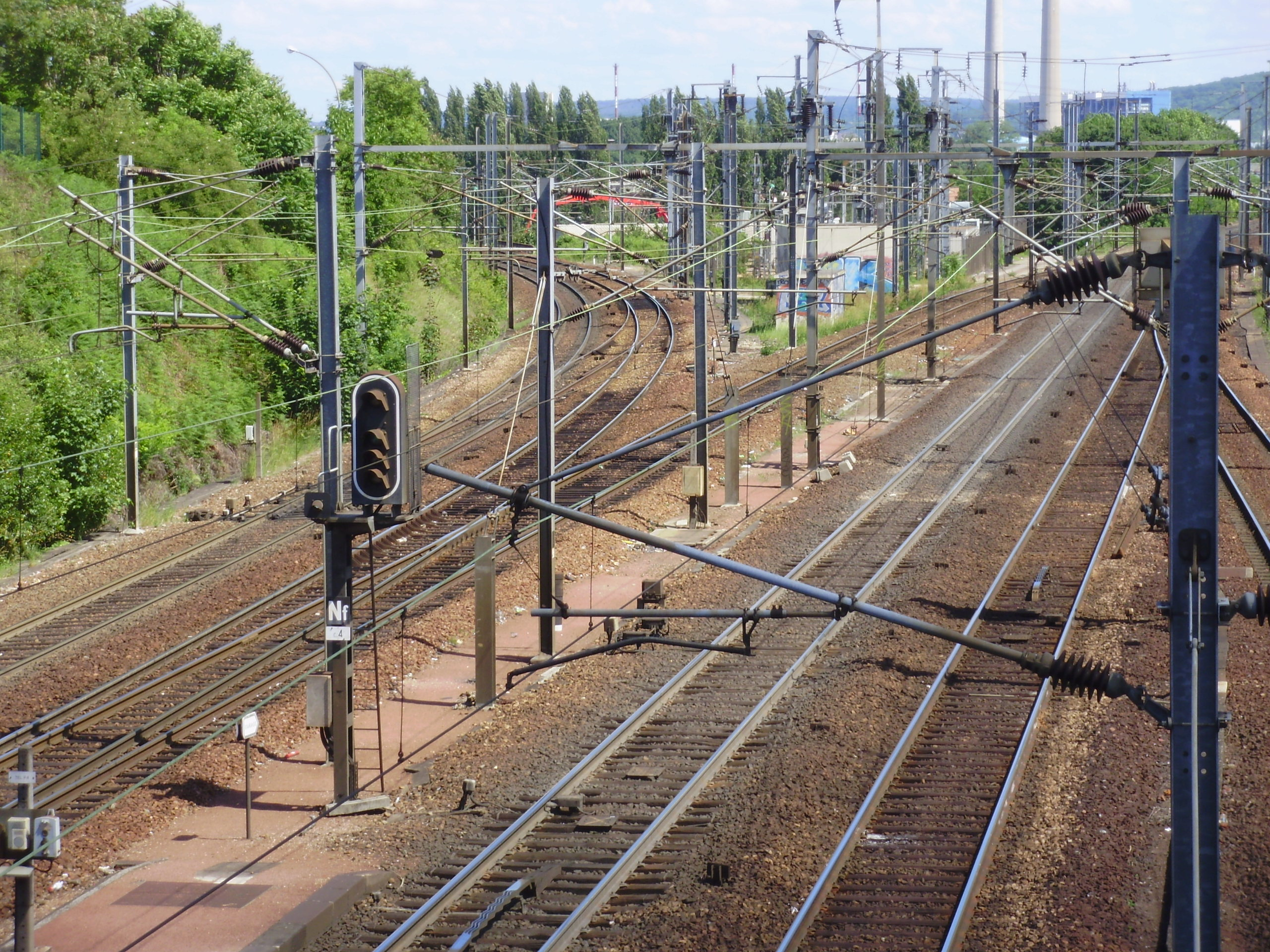 Mantes-Station station, Yvelines, France [Junction, east of the station, between the line to Paris-Saint-Lazare via Conflans-Saint-Honorine (line on left side) and the line to Paris-Saint-Lazare via Poissy (line on right side)]